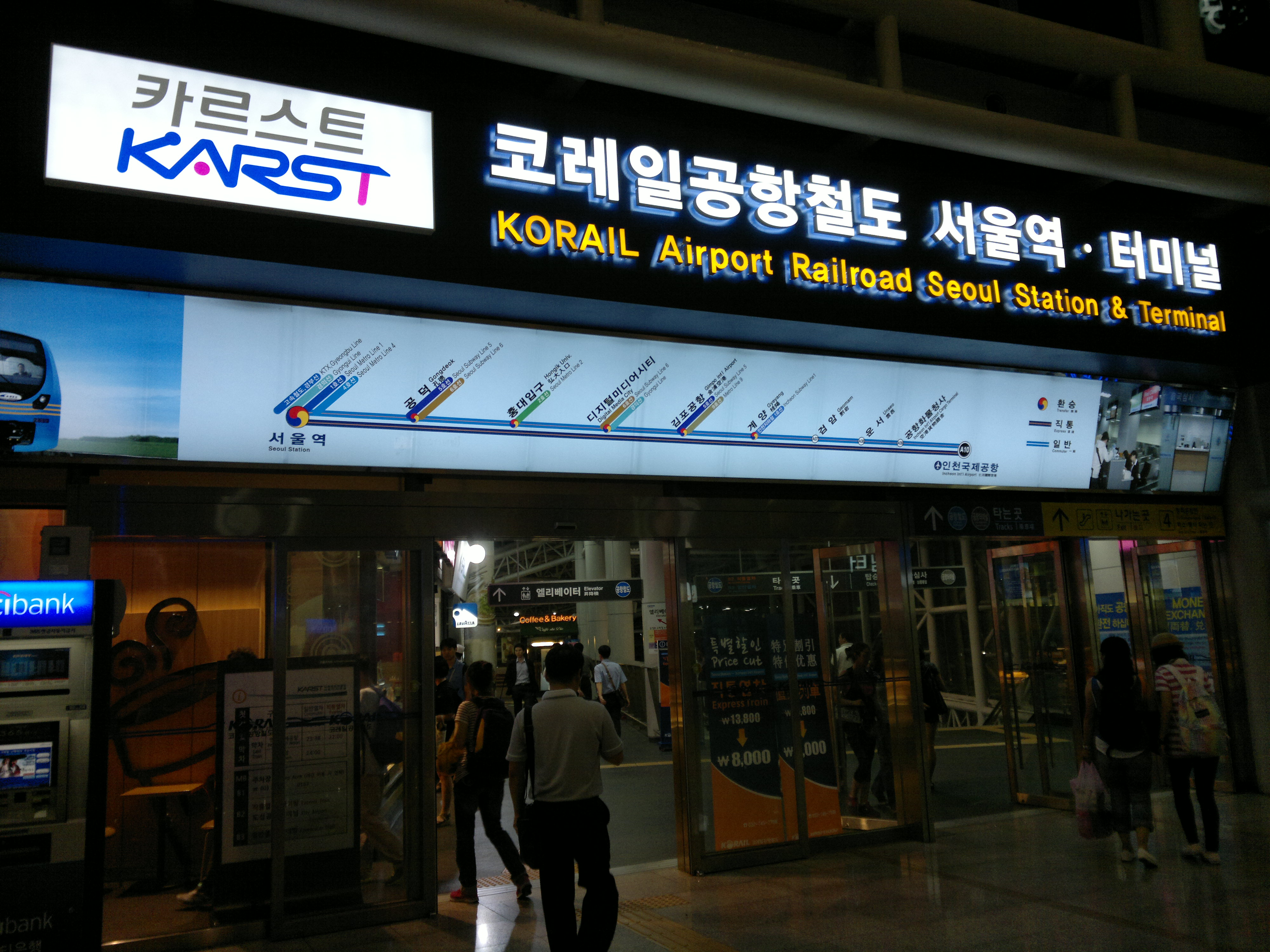 KORAIL Airport Railroad Seoul Station & Terminal.